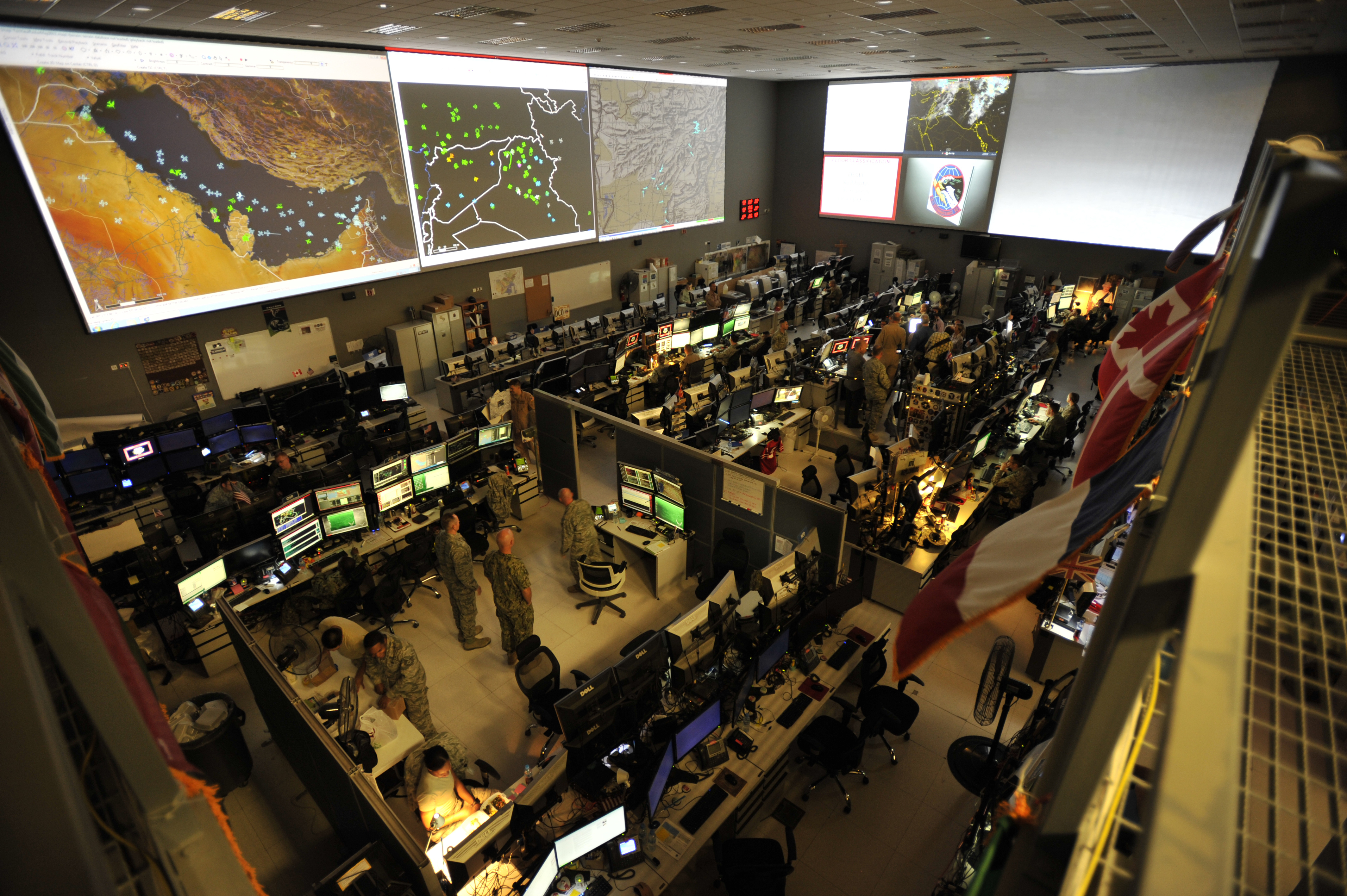 Combined Air Operations Center (CAOC) at Al Udeid Air Base, Qatar, provides command and control of air power throughout Iraq, Syria, Afghanistan, and 17 other nations. The CAOC is comprised of a joint and coalition team that executes day-to-day combined air and space operations and provides rapid reaction, positive control, coordination, and de-confliction of weapon systems. (U.S. Air Force photo by Tech. Sgt. Joshua Strang) Unit: U.S. Air Forces Central Command Public Affairs